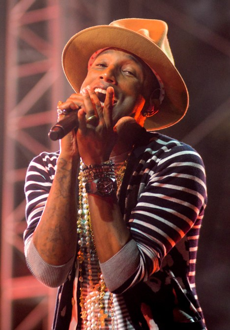 Pharrell Williams performing at the 2014 Coachella Valley Music and Arts Festival.